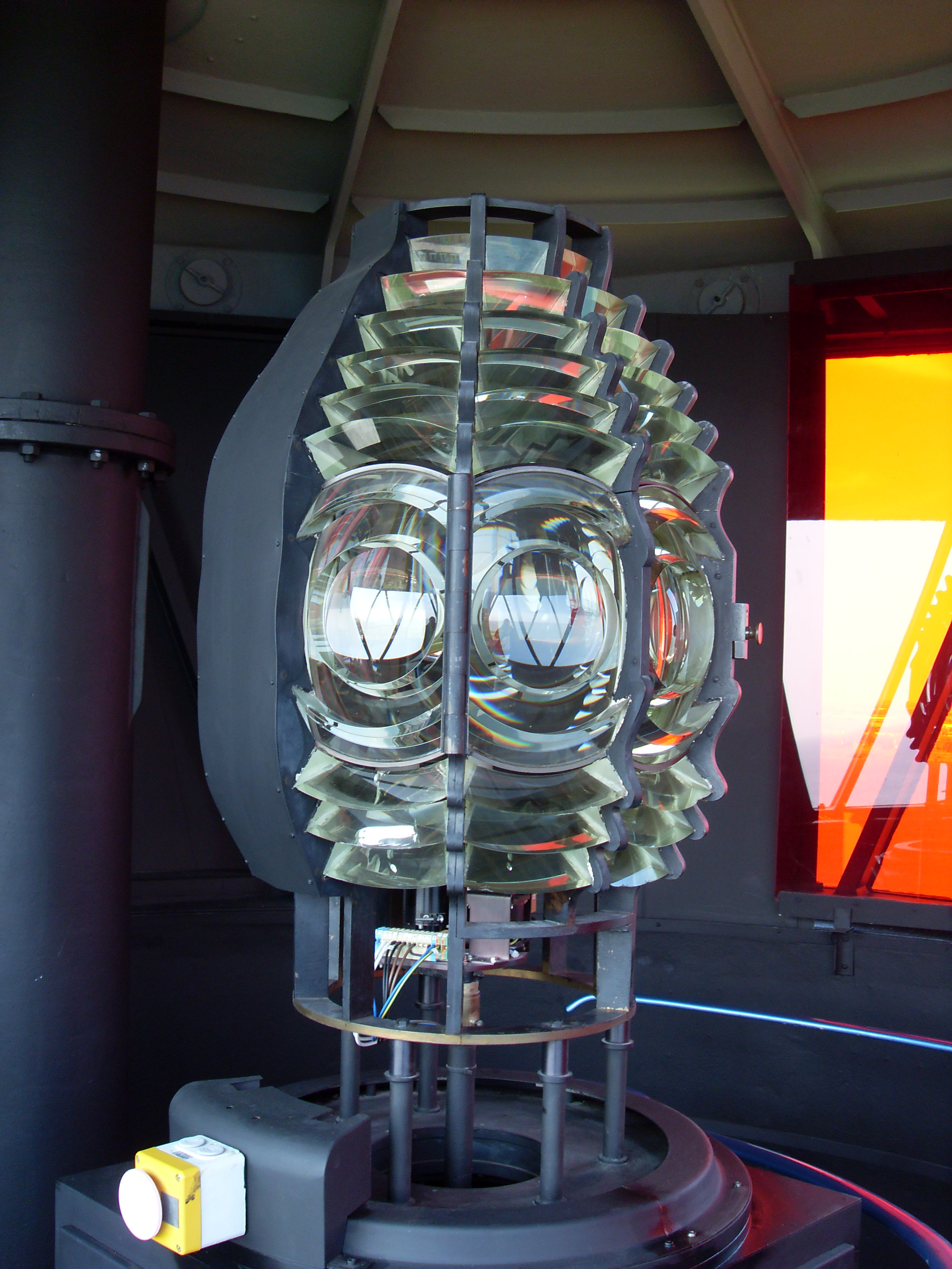 Optics from the Lighthouse Marienleuchte from 1875, original used in the old tower